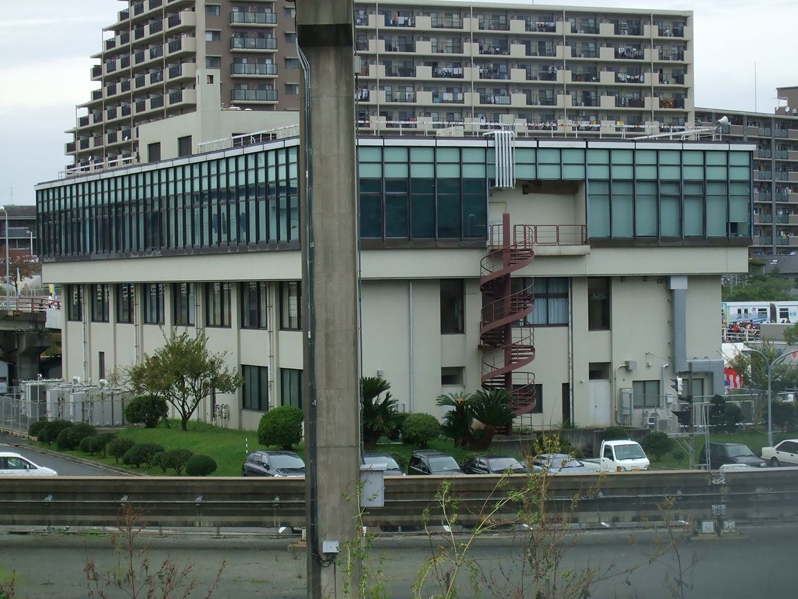 Kitakyushu Urban Monorail headquarters